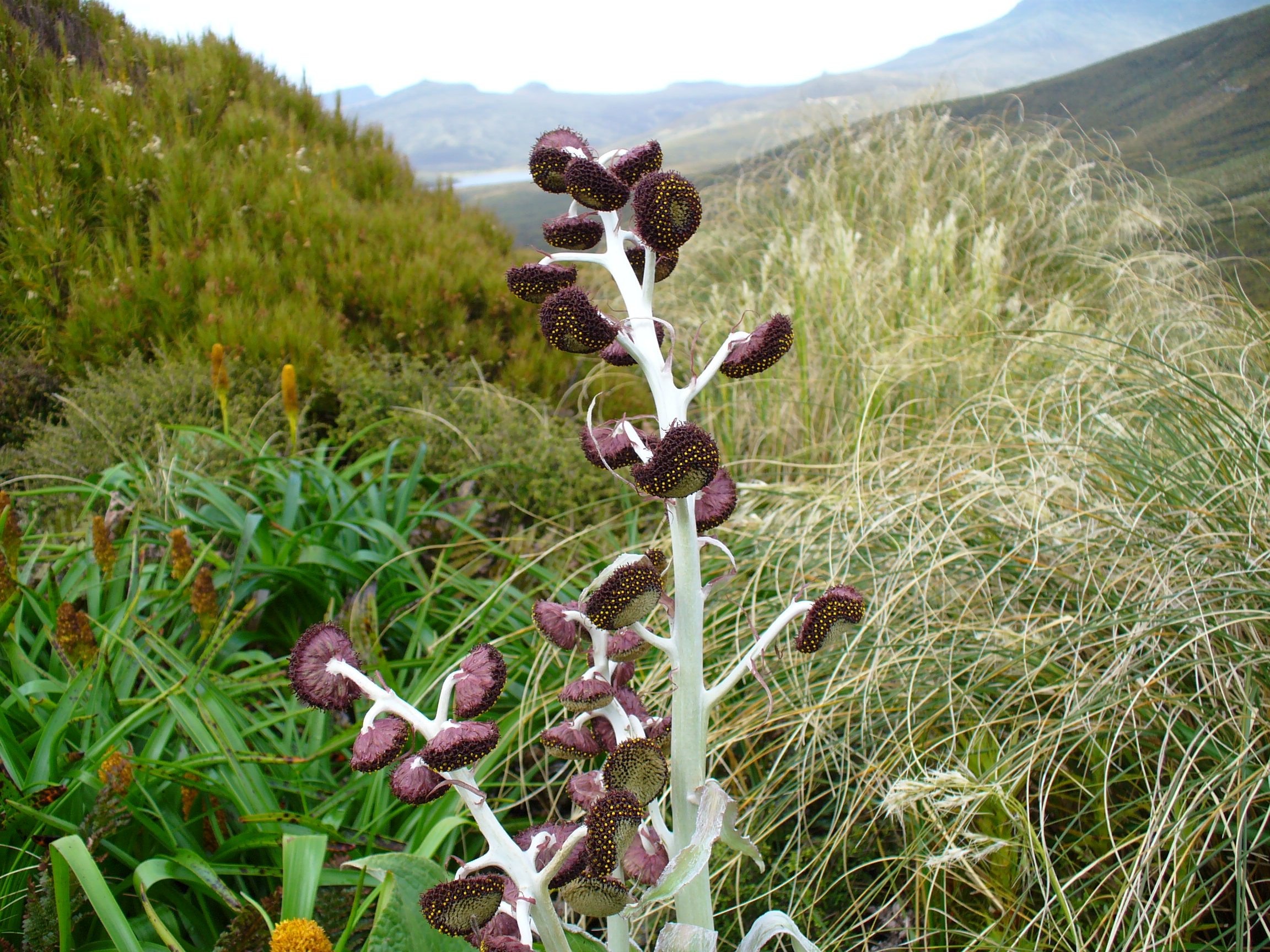 Pleurophyllum criniferum flowers, part of a megaherb community growing on Campbell Island, one of the sub-antarctic islands of New Zealand. The yellow flowers in the background are Bulbinella rossii. Also shown are tussock grasses and Dracophyllum scrub.